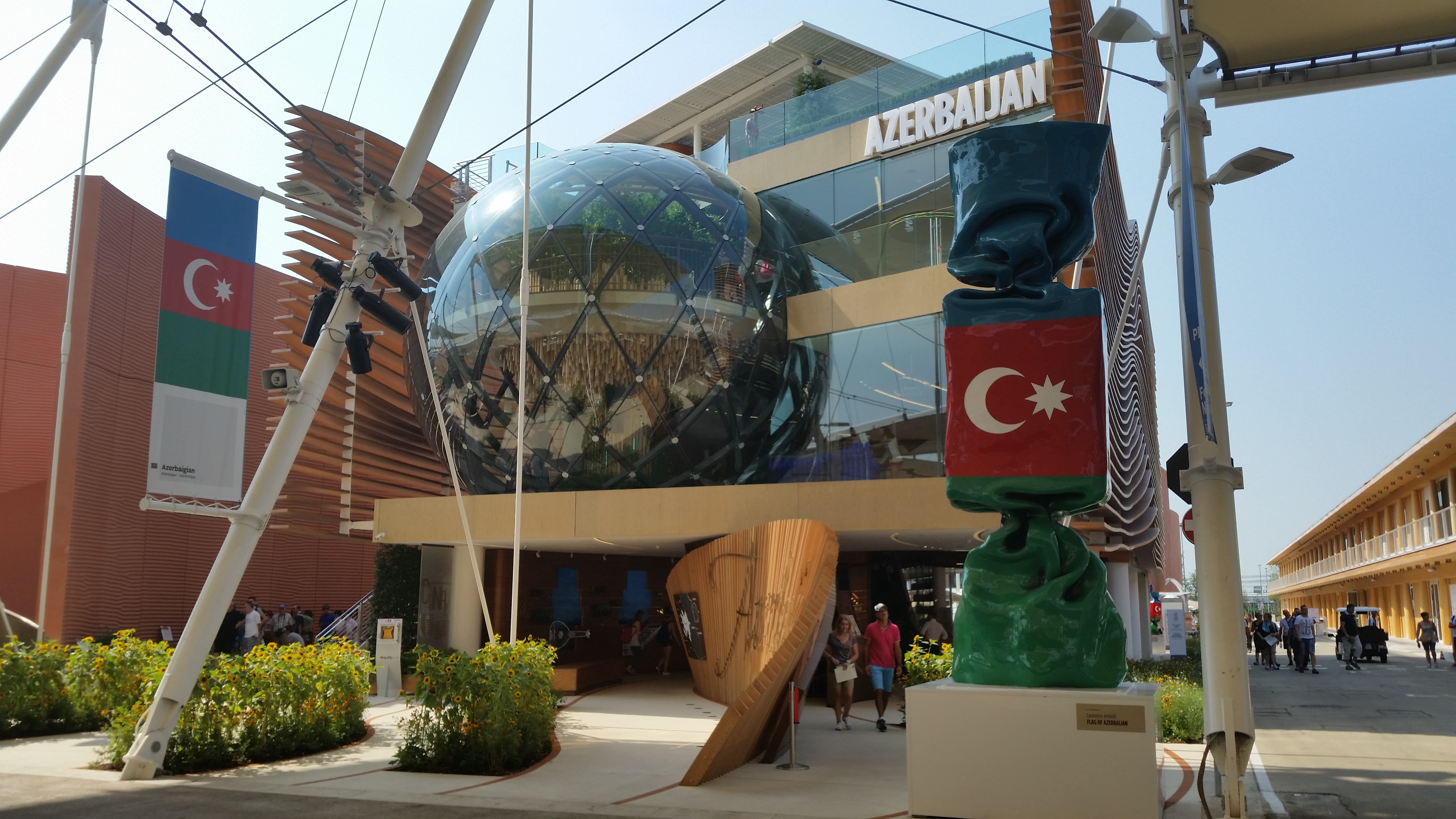 Pavilion of the Expo 2015 located in Milano (Italy)